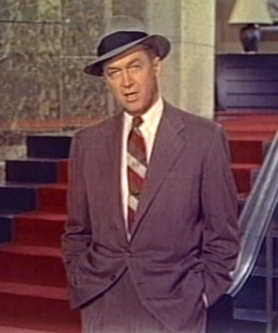 Cropped screenshot of James Stewart from the trailer for the film The Man Who Knew Too Much